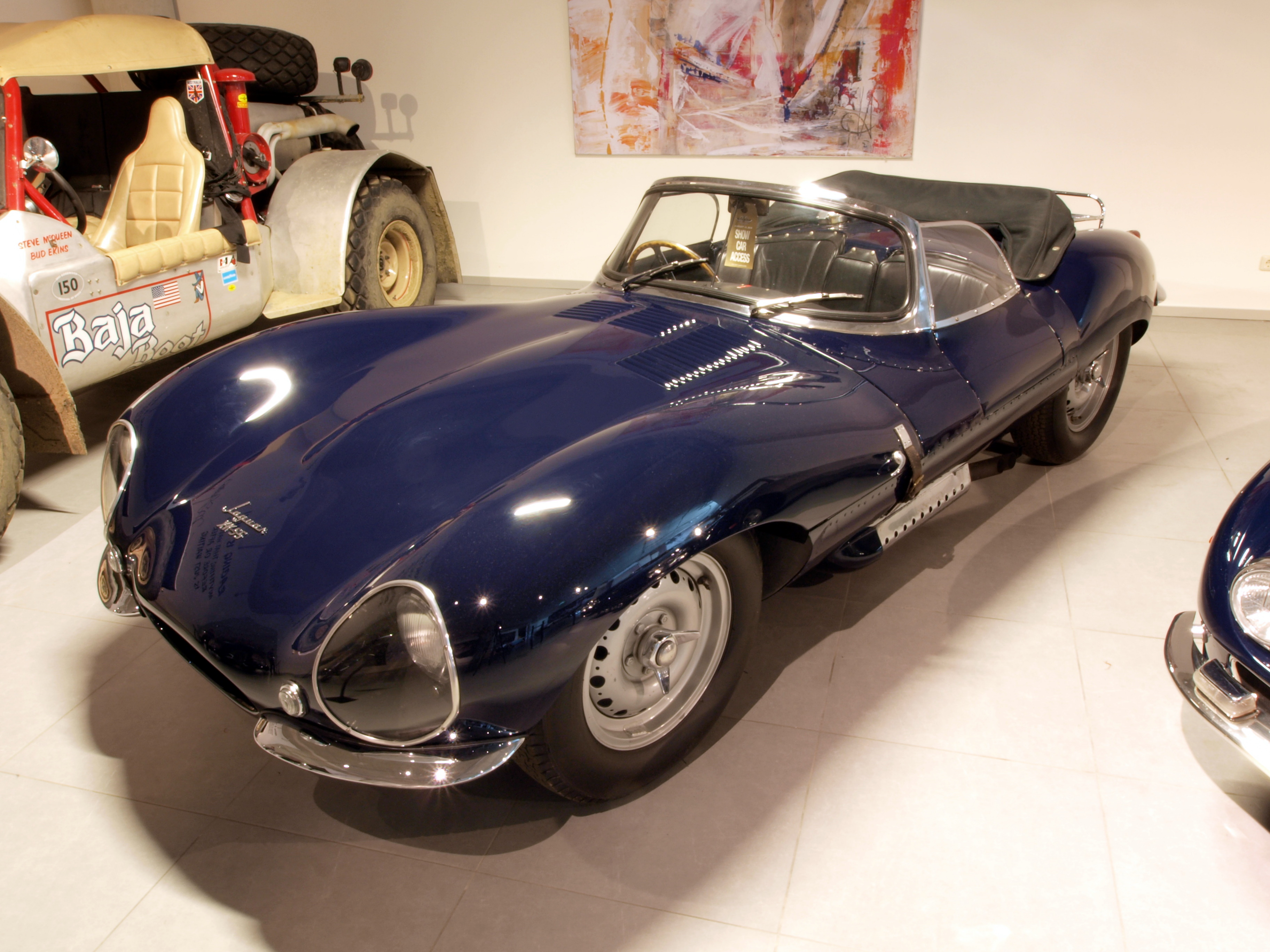 Photographed at the Louwman museum / Louwman Collection, The Netherlands.